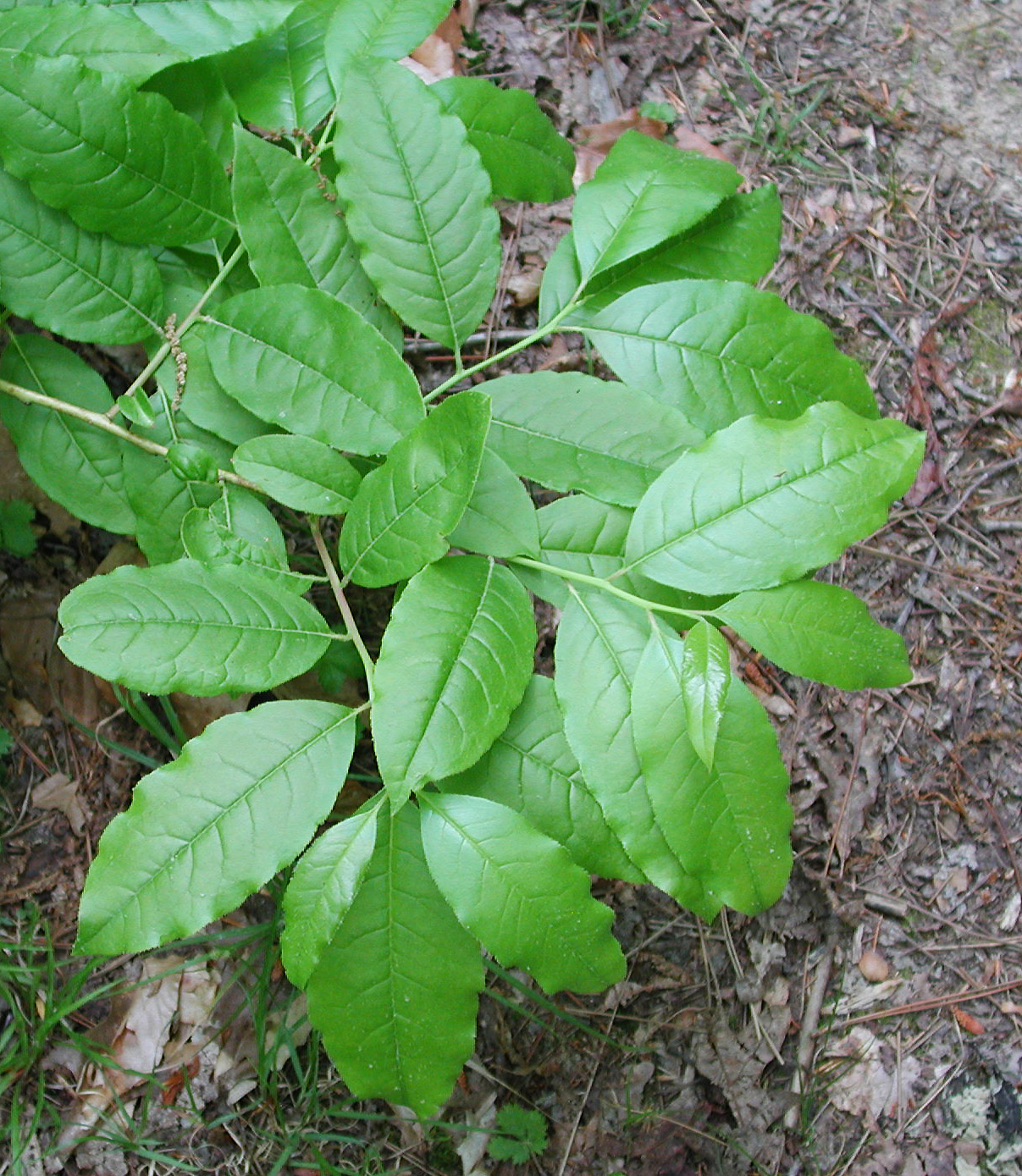 Oxydendrum arboreum at Lake Hope State Park, Vinton County, Ohio, on the Furnace Trail